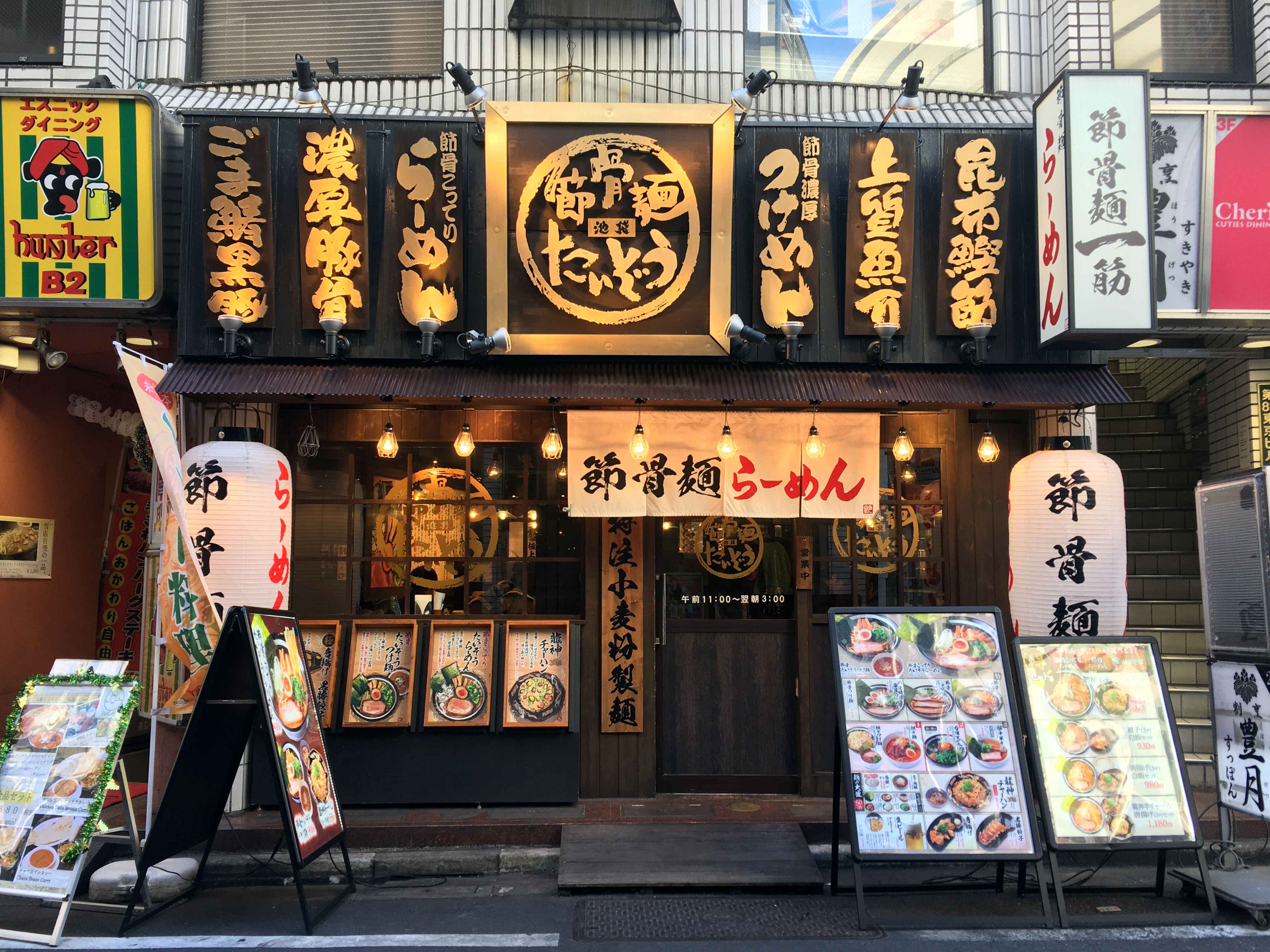 Bushikotsumen-Taizo (Japanese ramen shop) Ikebukuro-higashiguchi branch (Tokyo, Japan)